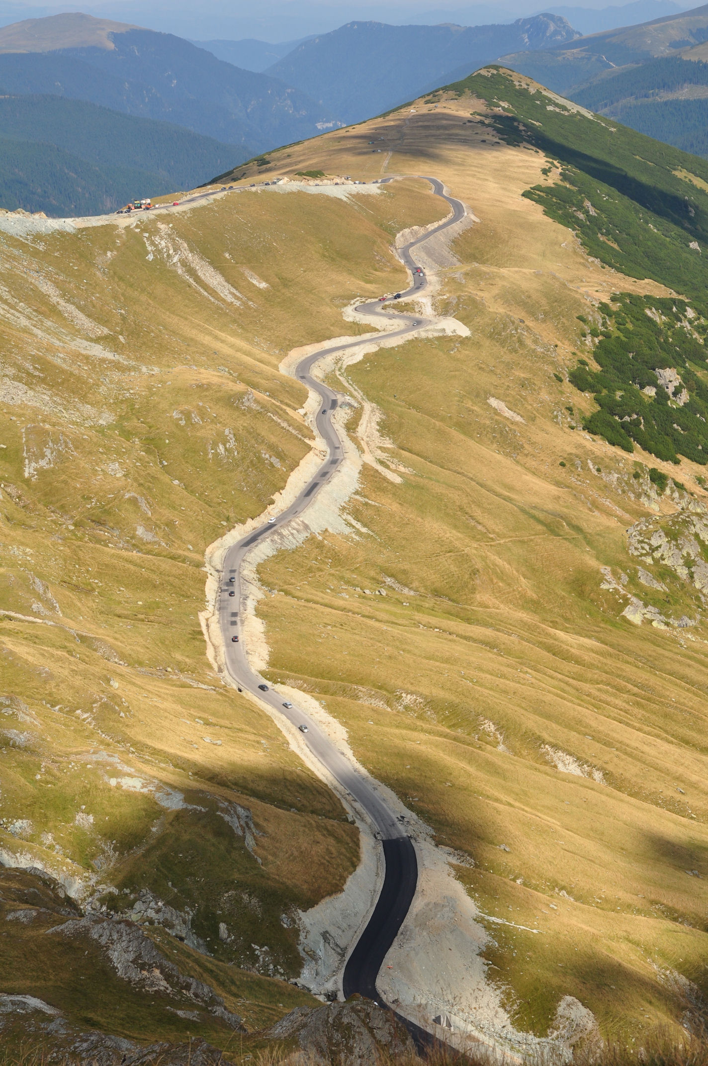 Transalpina (DN67C) Road, Romania